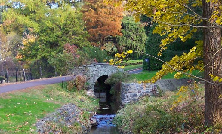 A bridge at the Morris Arboretum. Photo released under GFDL by User:ImGz.